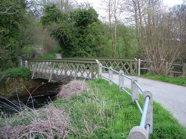 Jay Bridge Jay Bridge over the Clun River West of Leintwardine